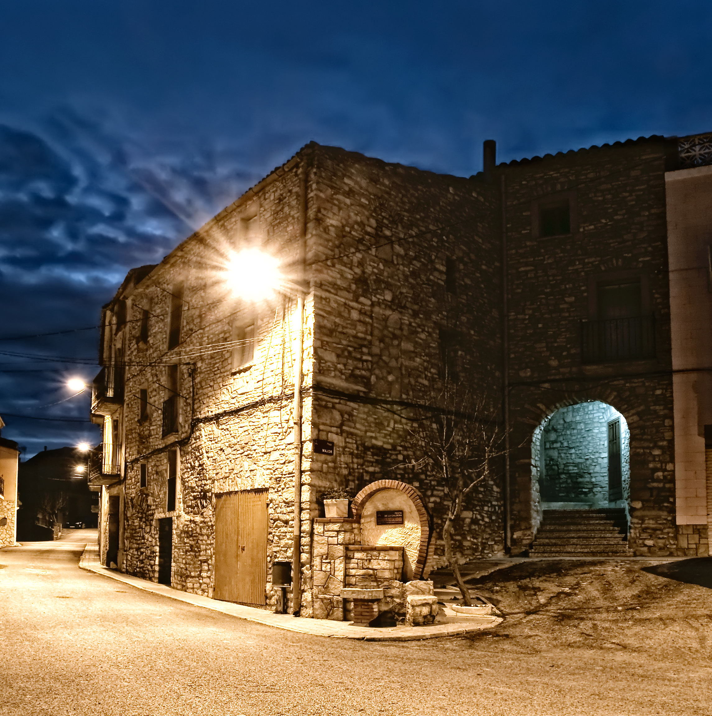 Montmaneu Square (Catalonia, Spain).